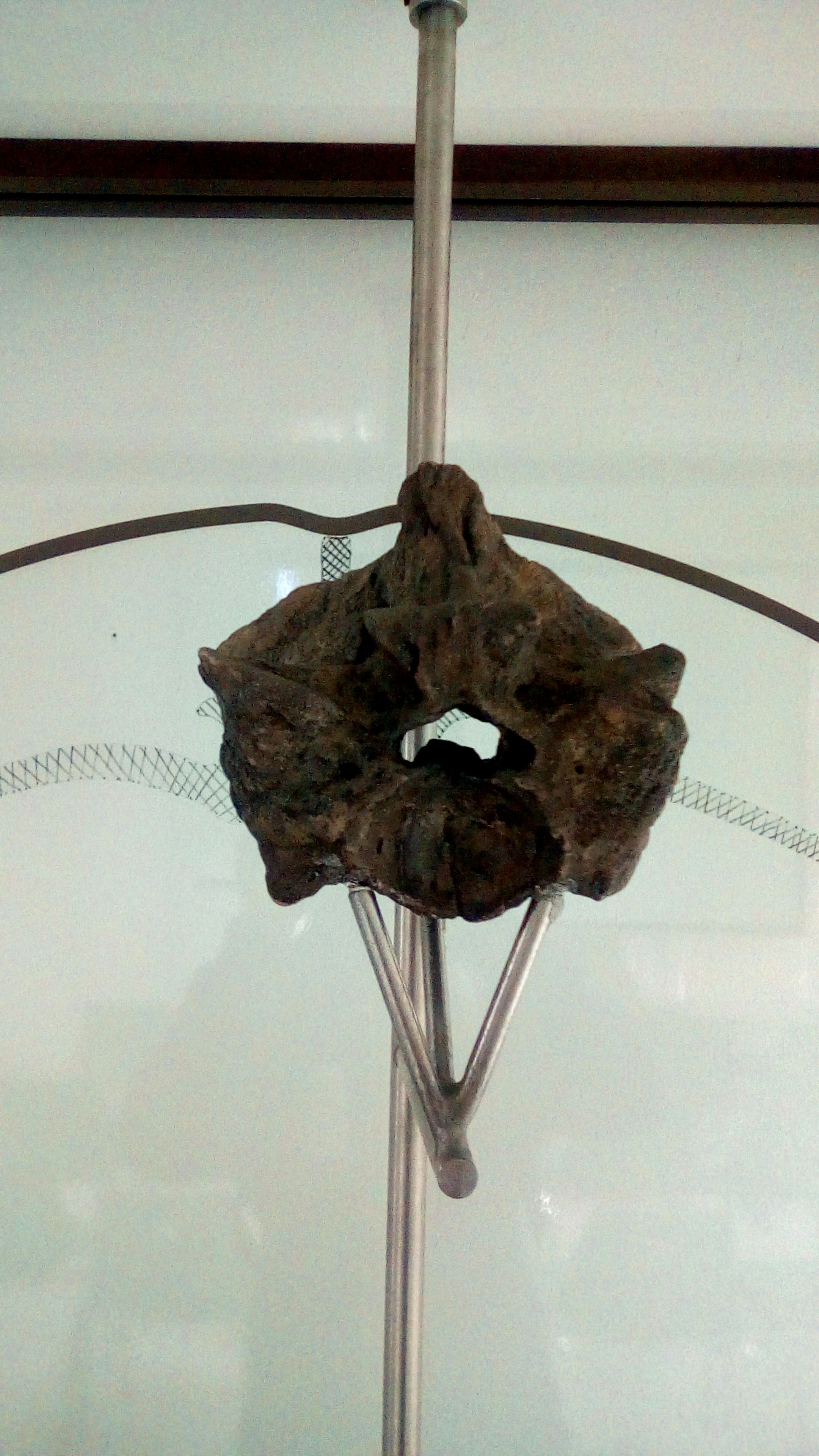 Frontal view of a cast of a Titanoboa cerrejonensis vertebra. Museo Geológico José Royo y Gómez, Bogotá.